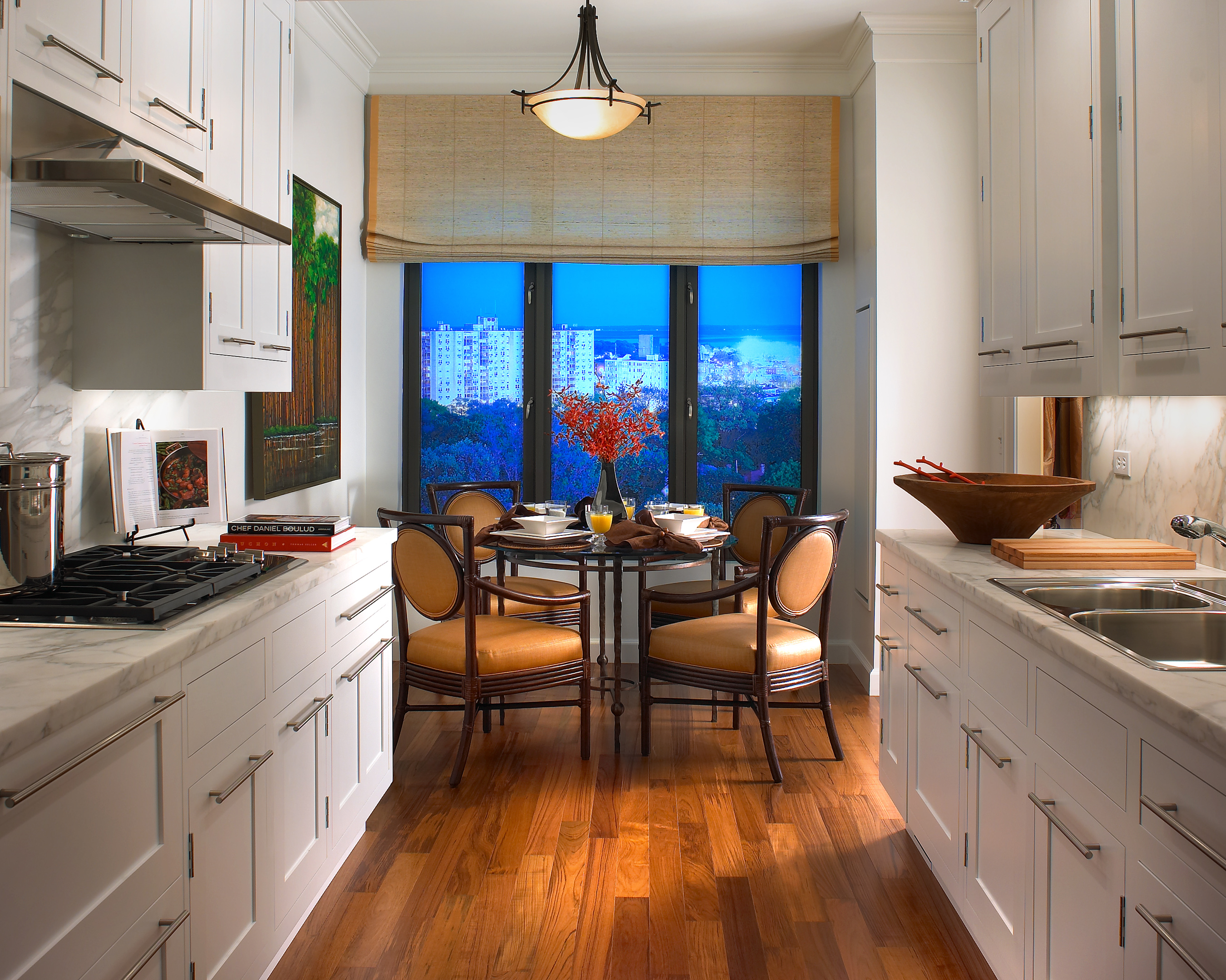 Picture taken by Tod Tanis of the Kitchen at Highgrove